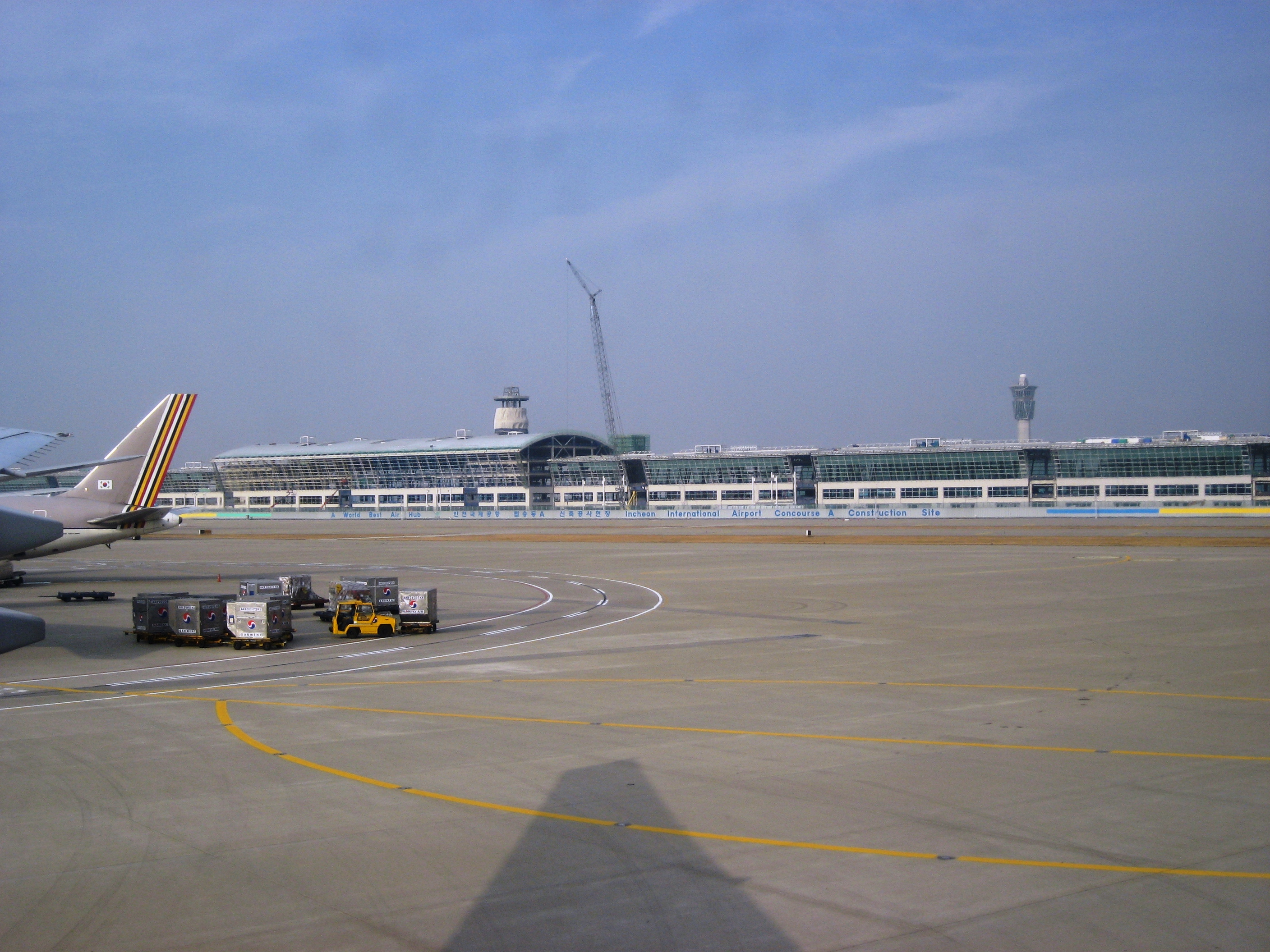 Incheon International Airport,New Satellite building "A".